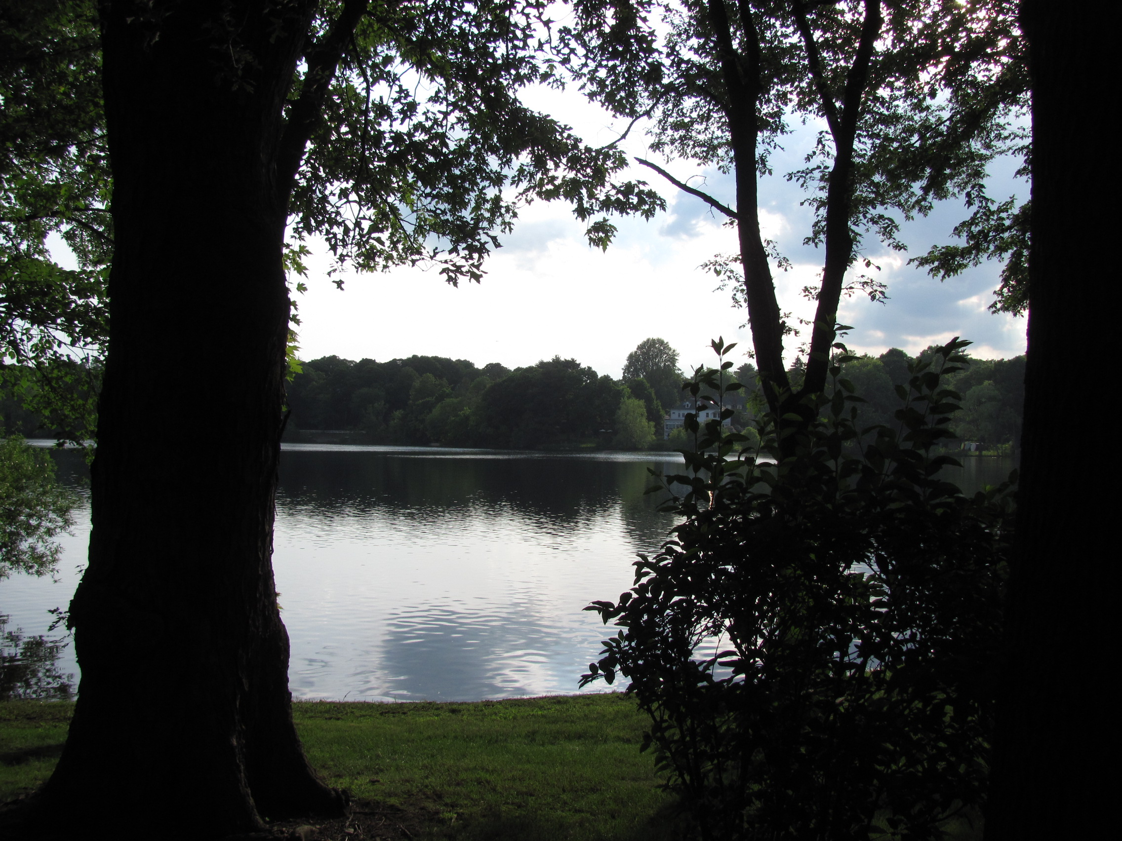 Crystal Lake, Newton Centre Massachusetts